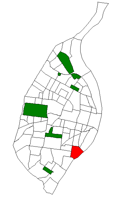 Map of St. Louis Neighborhood #18